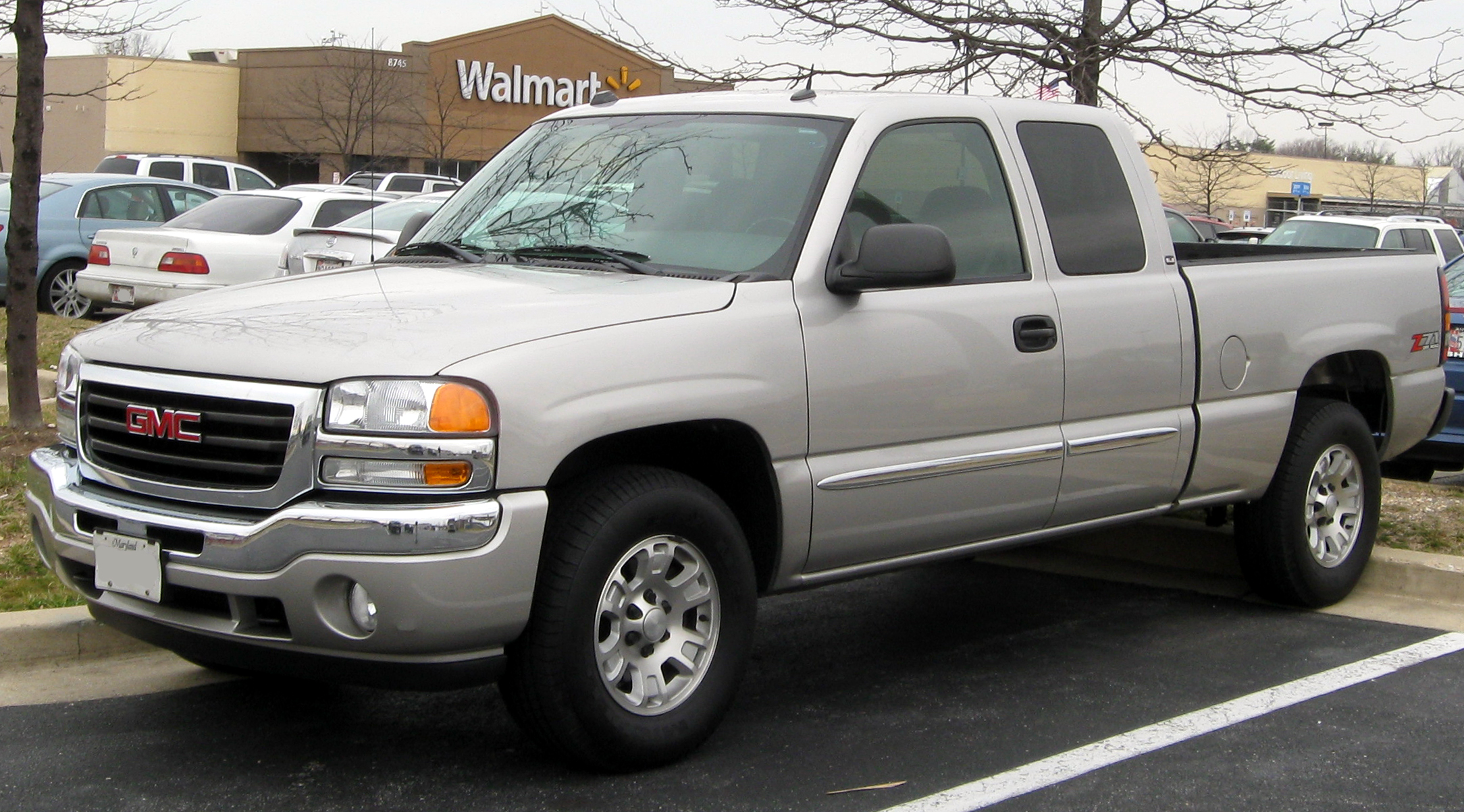 2003-2006 GMC Sierra photographed in Clinton, Maryland, USA.